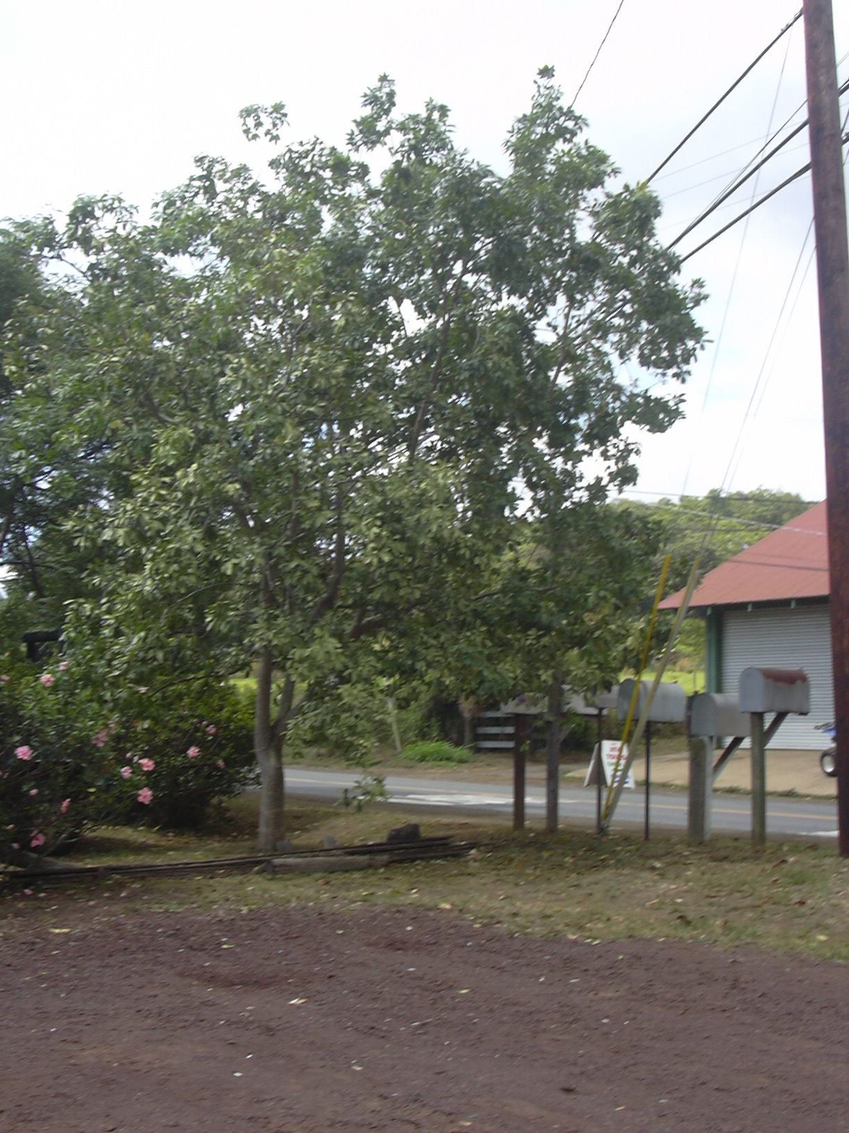 Casimiroa edulis (habit). Location: Maui, Ulupalakua